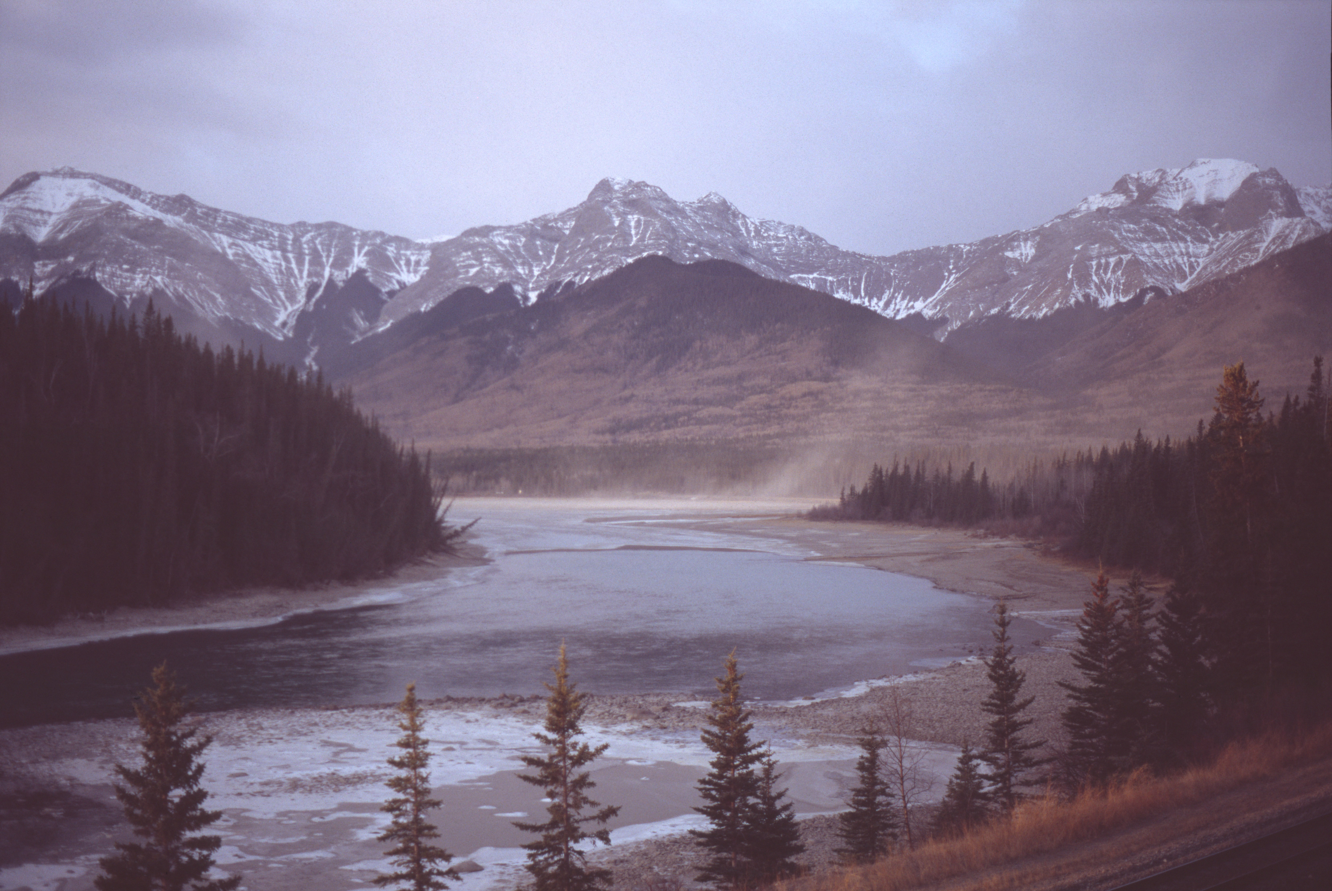 Athabasca River at the mouth of Brule Lake The image copyright owner, Eddie Carle, hereby agrees to the licensing terms of the GFDL for use on WikiMedia Commons. The owner, Eddie Carle, retains copyright to this image. This photo was taken by Eddie Carle on January 6, 2006 looking south from the west side of the Athabasca River at Brule Lake. Anomity 17:01, 20 April 2006 (UTC)